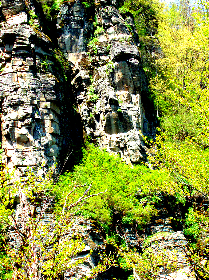 Studagrada_Rhodopes_Bg_Ancient_Tracian_Sanctuary_7